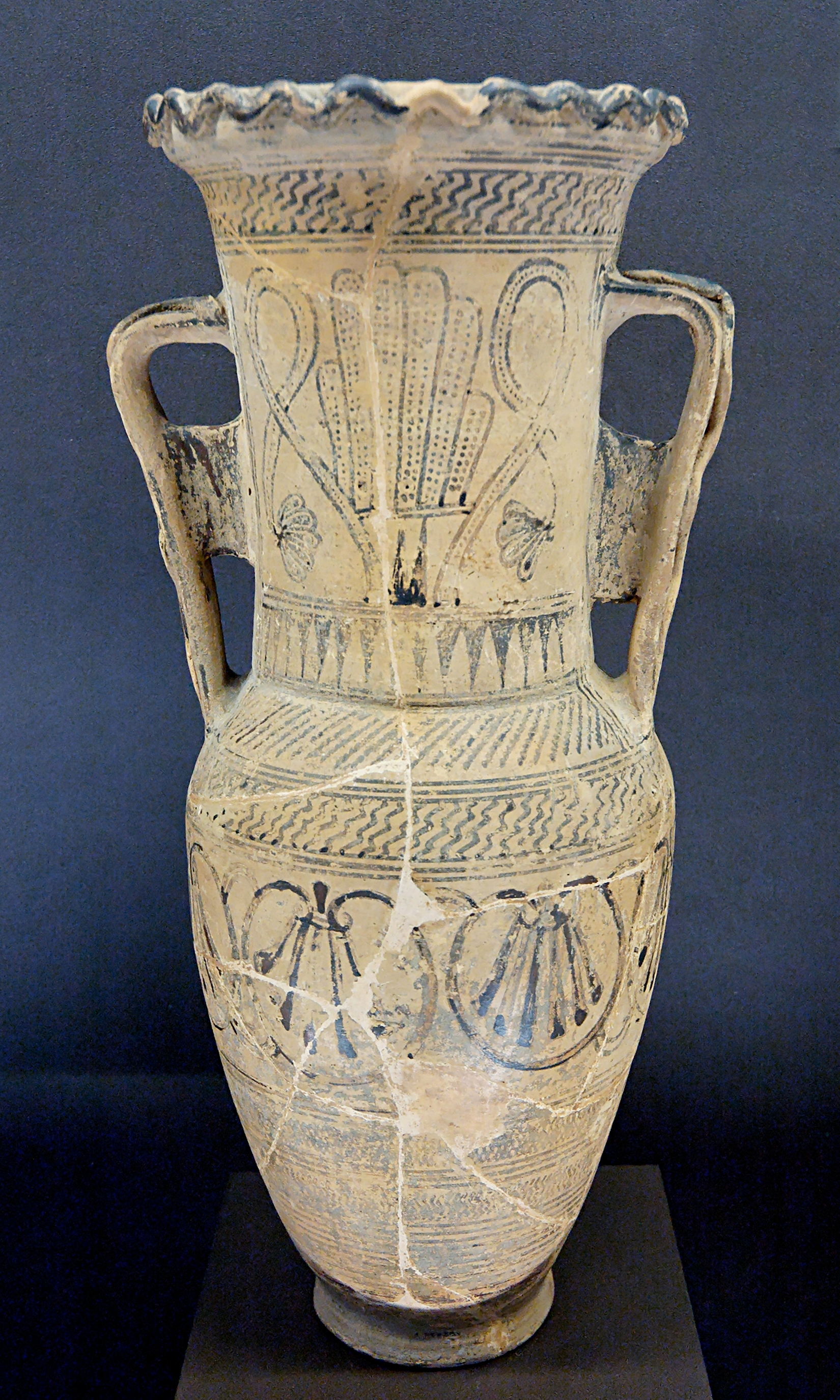 Protoattic loutrophoros, ca. 680 BC. Found in Athens.